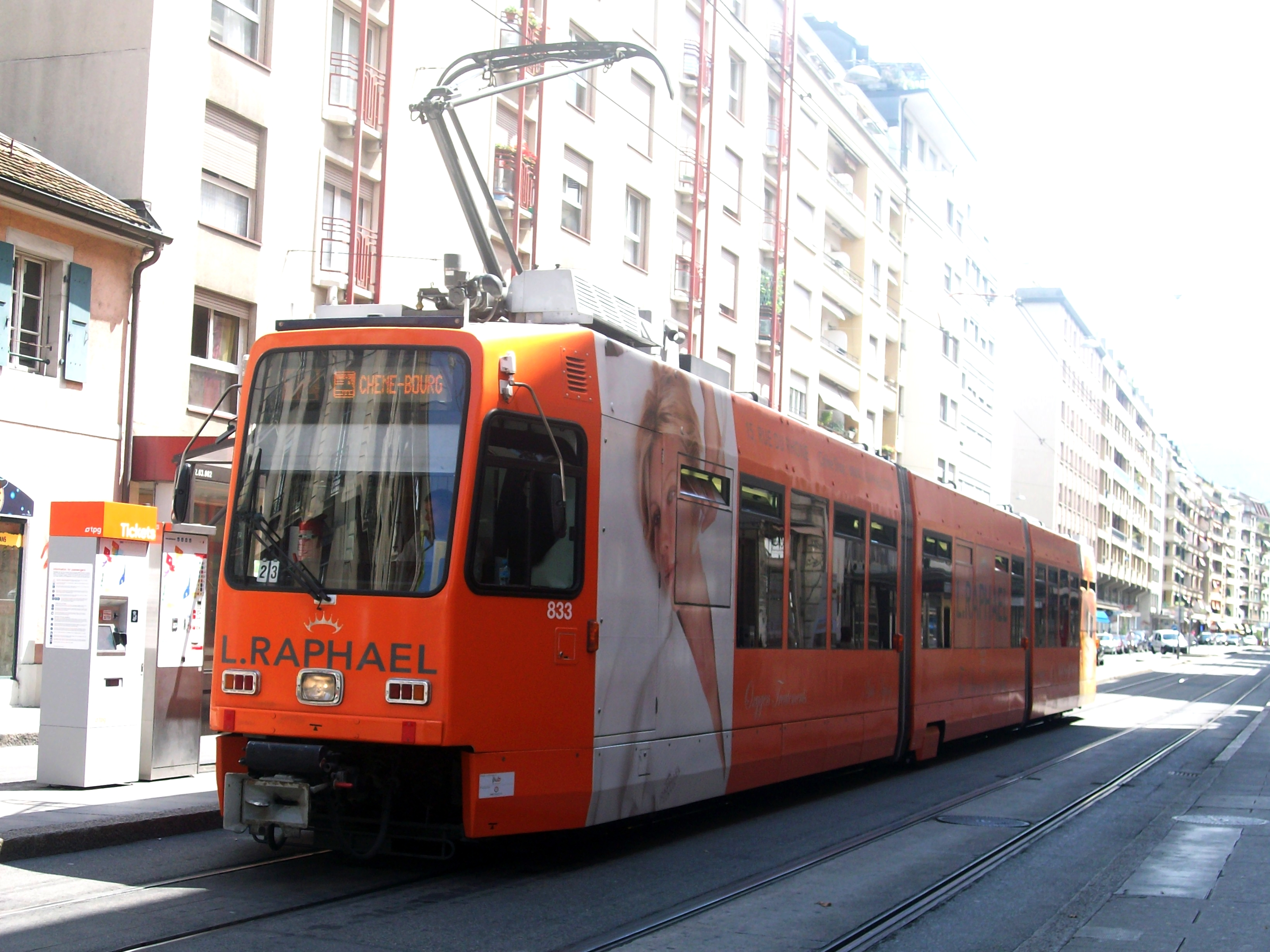 Duewag-Vevey Be 4/8 (TPG), Geneva